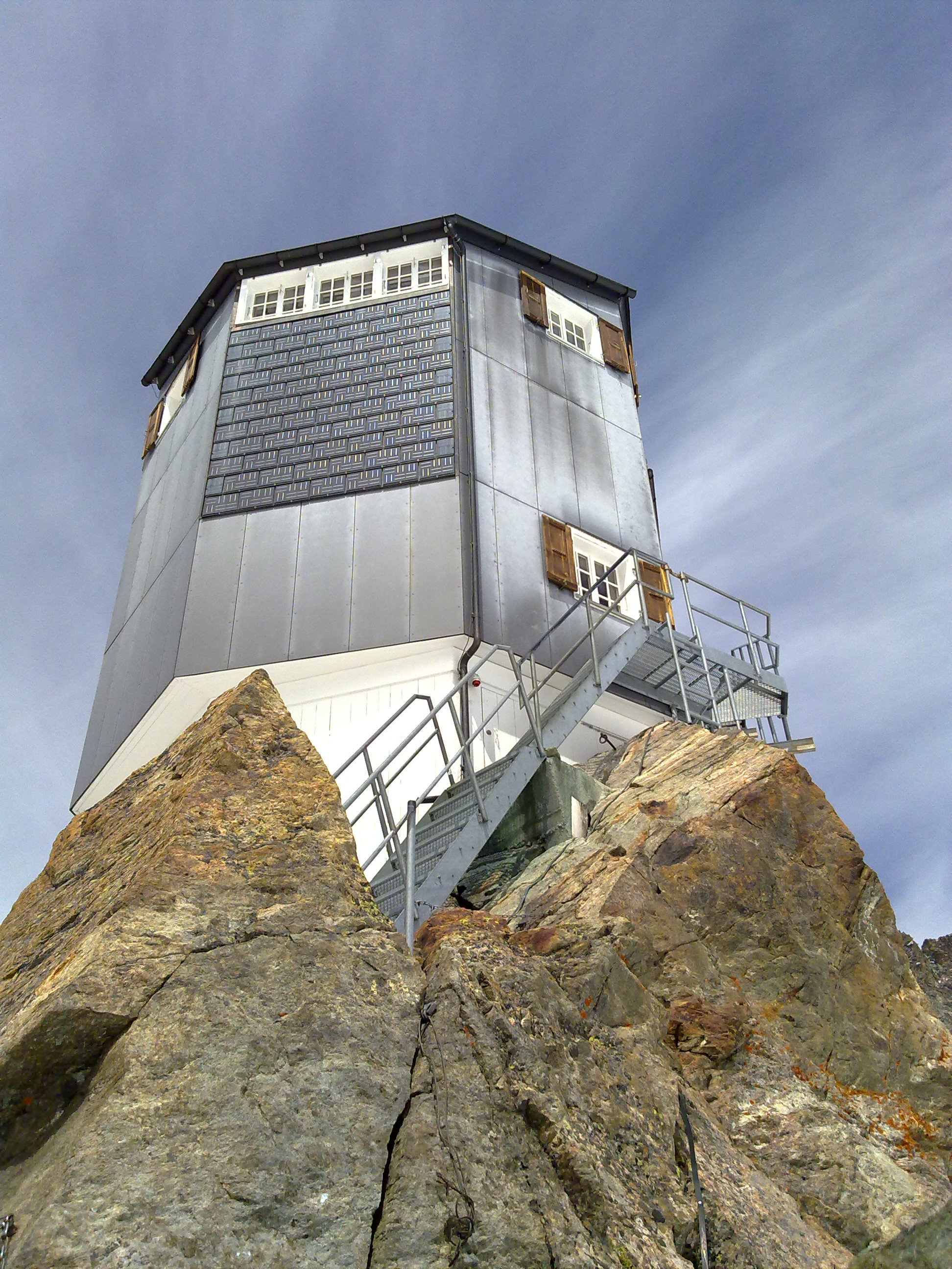 Bertol hut (3300 m), near Arolla